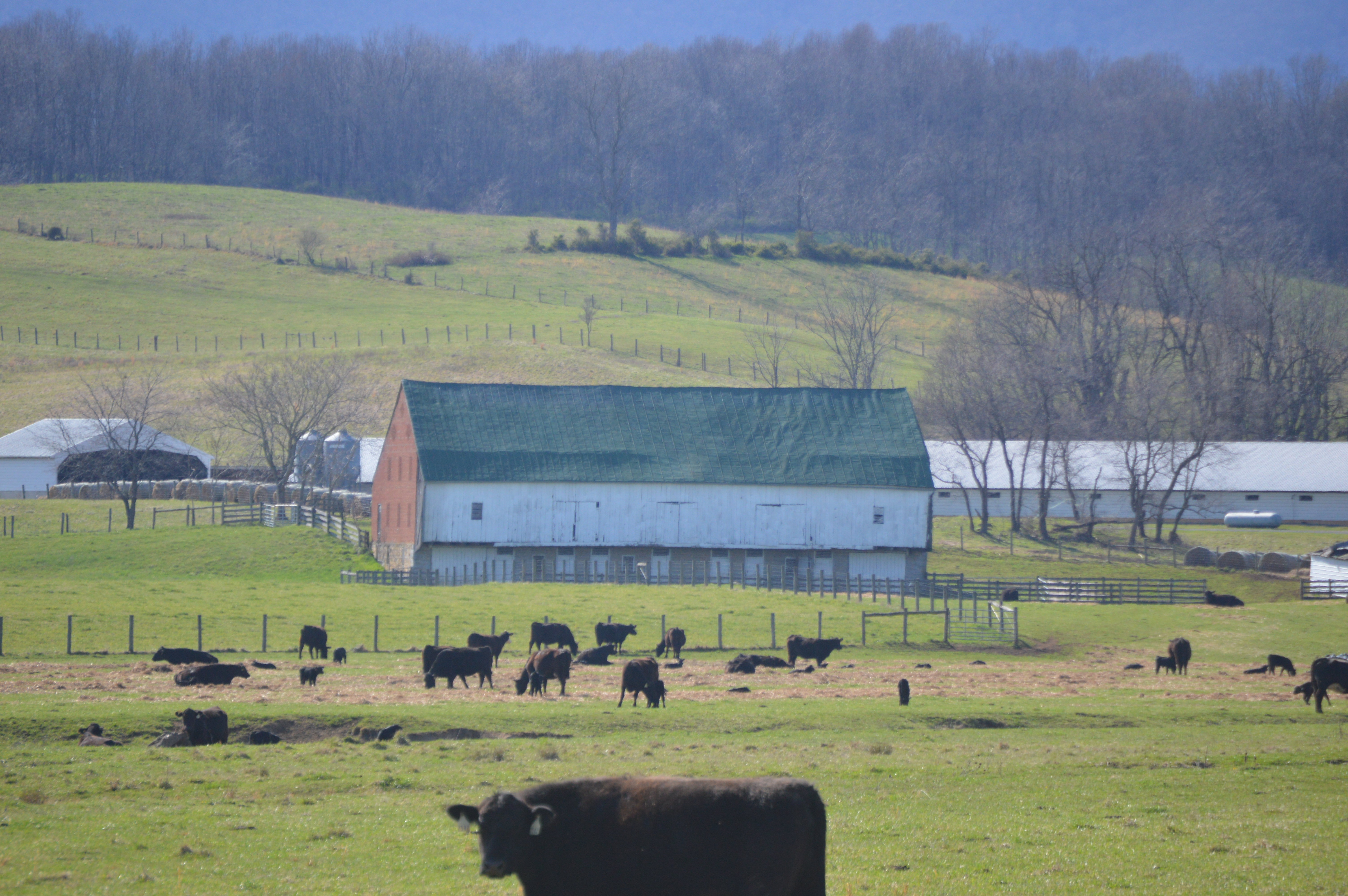 Distant view from Mish Barn Road of the eastern side and southern end of the Henry Mish Barn, located north of Middlebrook in Augusta County, Virginia, United States. Built in 1849, it is listed on the National Register of Historic Places.